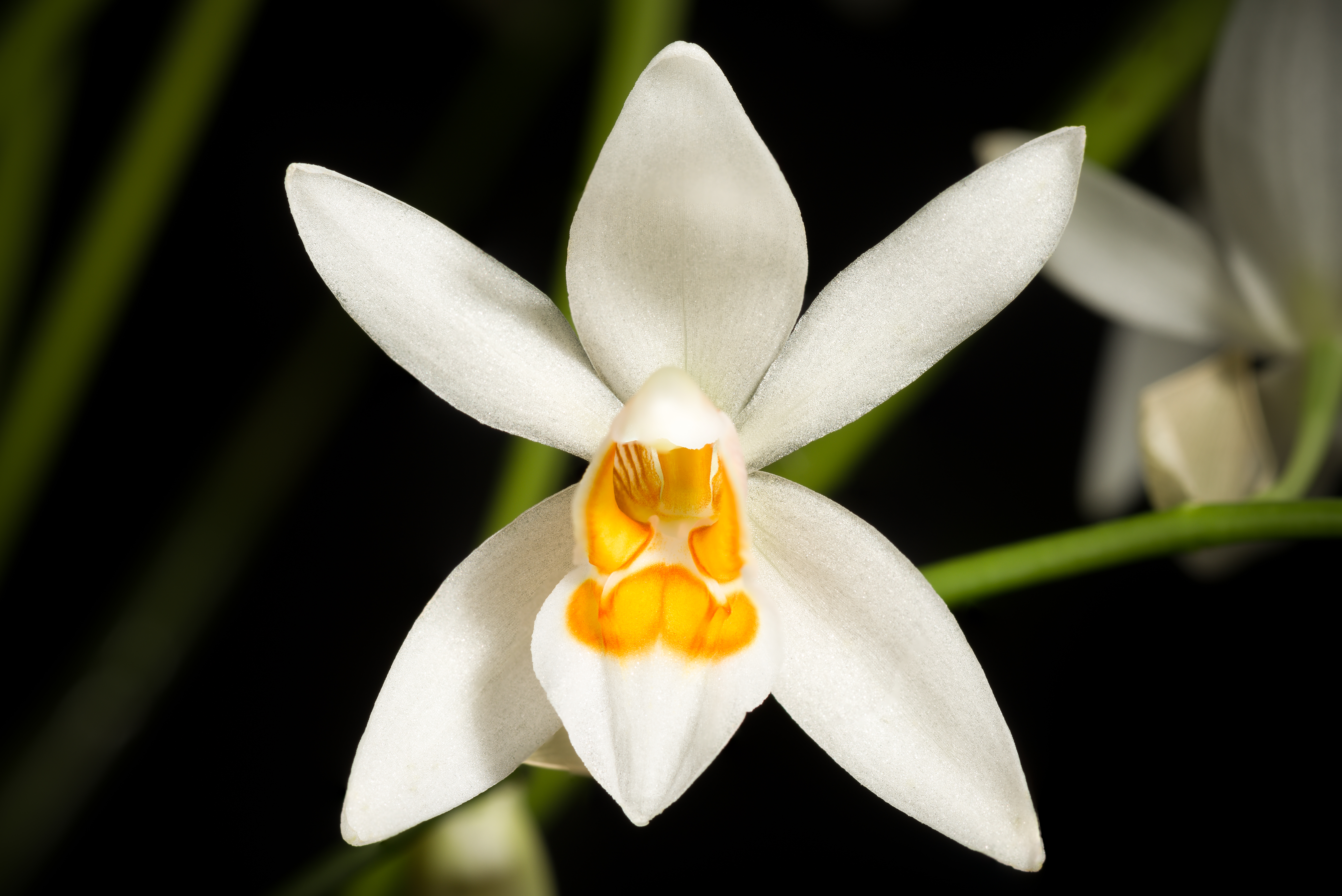 SECTION Ocellatae Pfitzer & Kraenzlin Lifeform: Pseudobulb epiphyte Distribution: Nepal to China (Yunnan) and Indo-China (36 CHC 40 ASS BAN EHM NEP 41 LAO MYA VIE) Basionym Cymbidium nitidum Wall. ex D.Don, Prodr. Fl. Nepal.: 35 (1825) Homotypic synonyms Pleione nitida (Lindl.) Kuntze, Revis. Gen. Pl. 2: 680 (1891) Heterotypic synonyms Coelogyne ochracea Lindl., Edwards's Bot. Reg. 32: t. 69 (1846) Coelogyne conferta auct., Gard. Chron., n.s., 3: 314 (1875) Pleione ochracea (Lindl.) Kuntze, Revis. Gen. Pl. 2: 680 (1891) Coelogyne nitida f. candida Roeth, Die Orchidee (Hamburg) 53: 437 (2002)